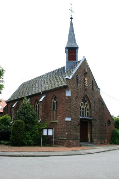 Cultural heritage monument No. 282 in Erkelenz